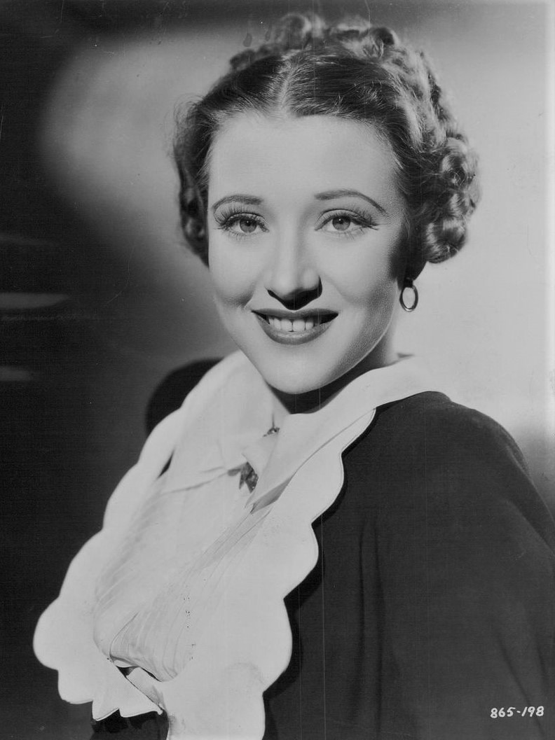 Jean Rouverol in The Road Back - publicity still (cropped)